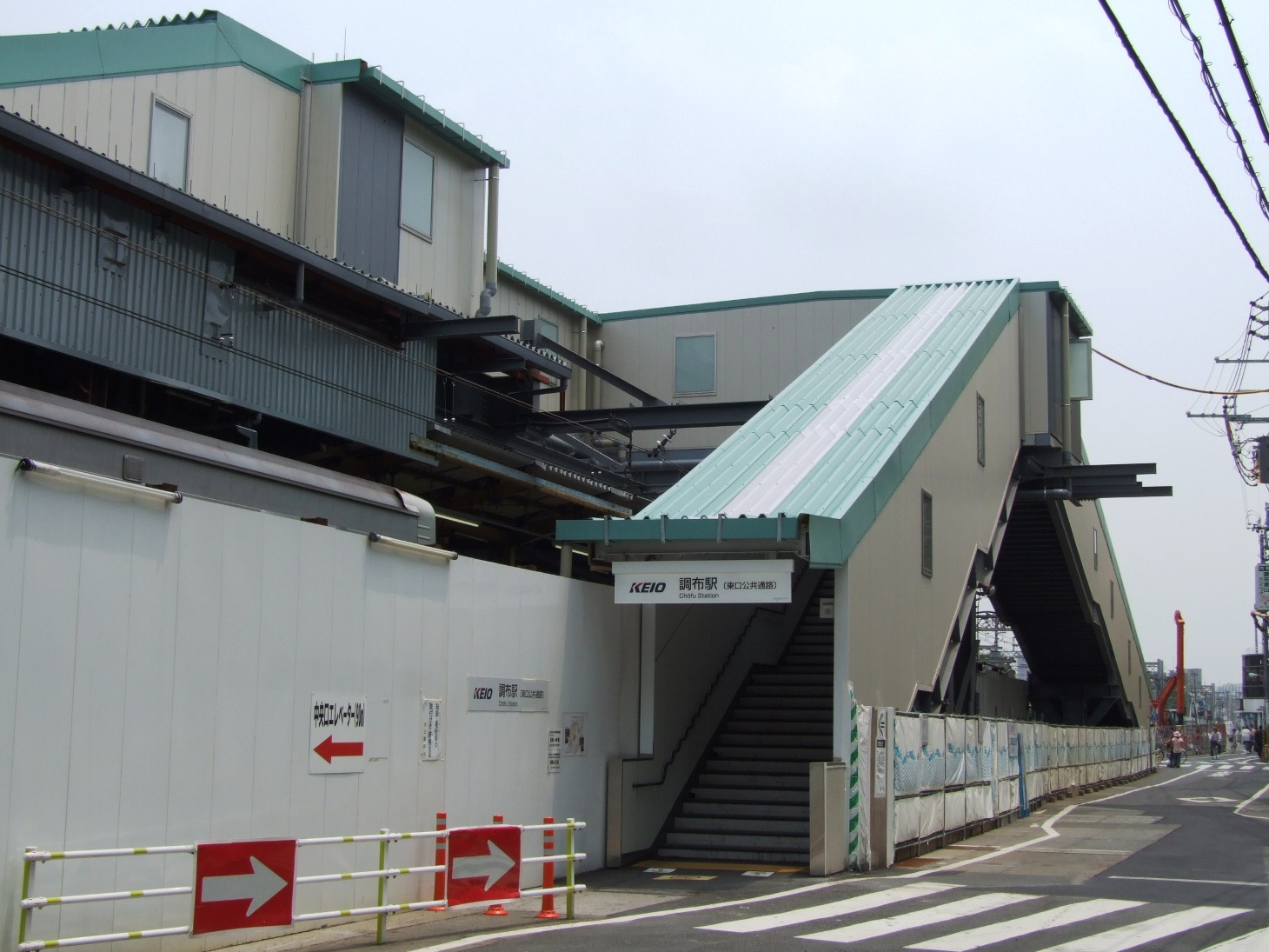 Temporary East Gate of Chōfu station,KEIO-LINE,Keio Corporation,Japan